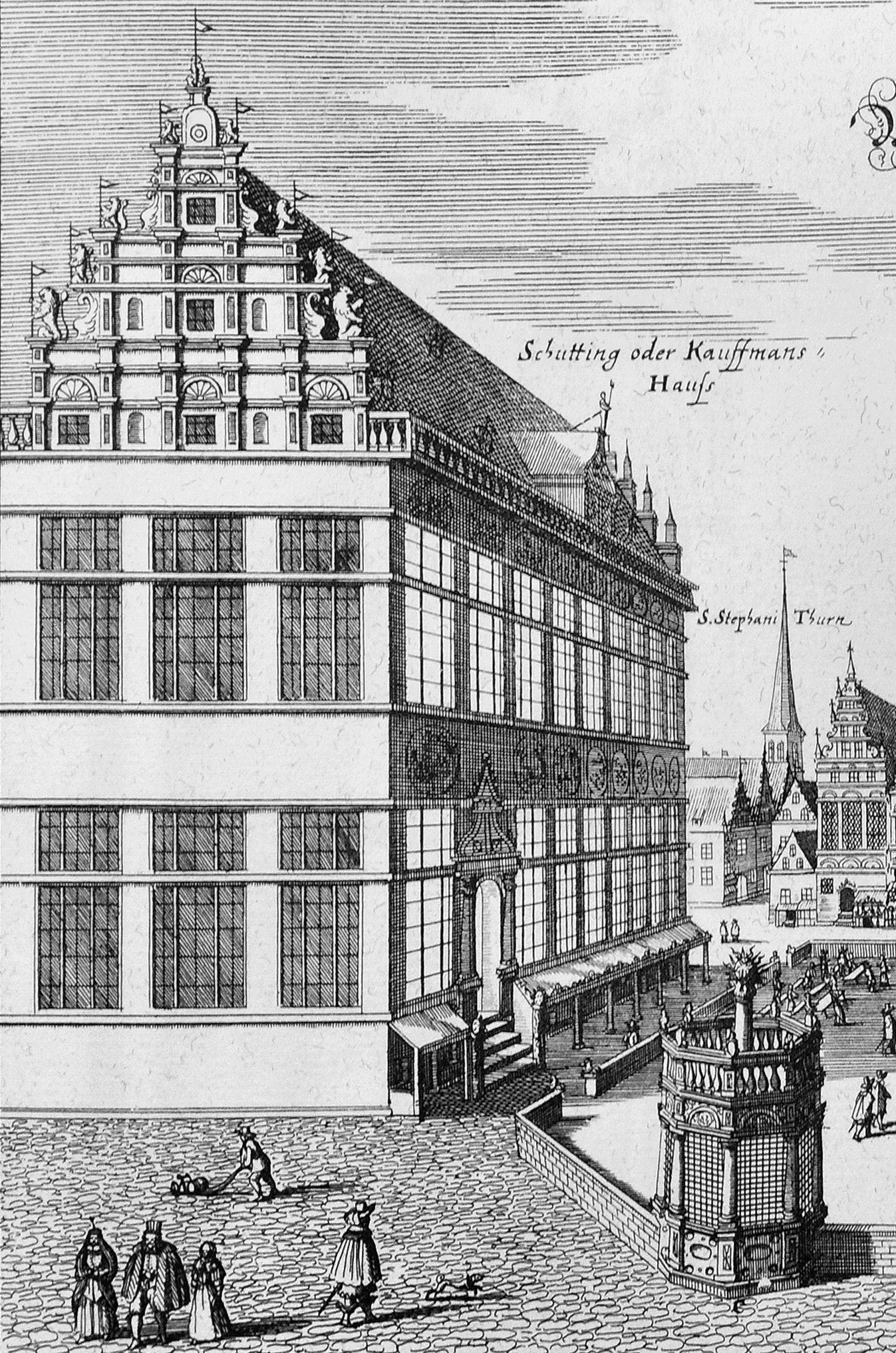 cut of File:Marckt_in_Bremmen_(Merian).jpg